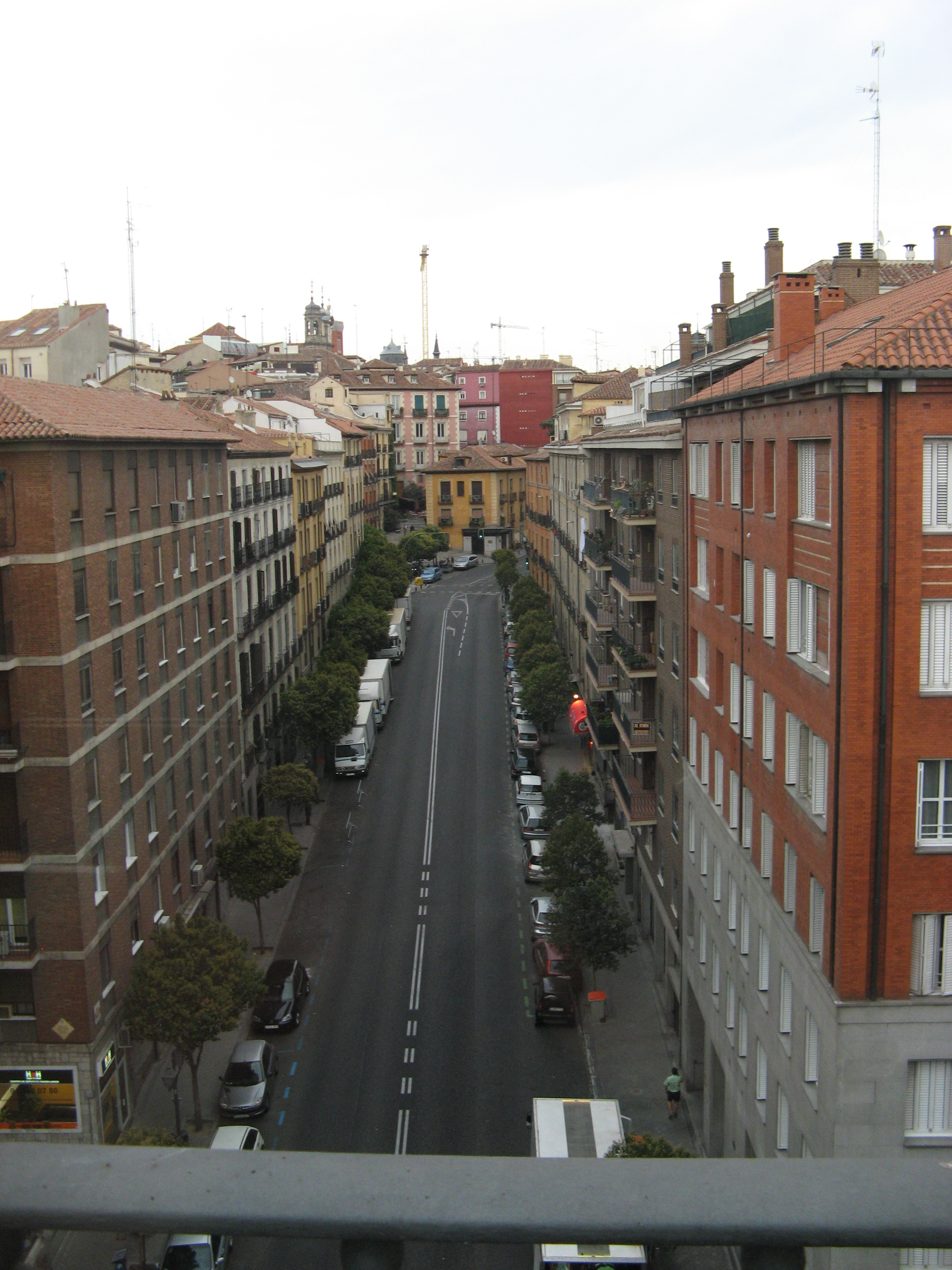 Calle de Segovia (street) in Madrid (Spain).